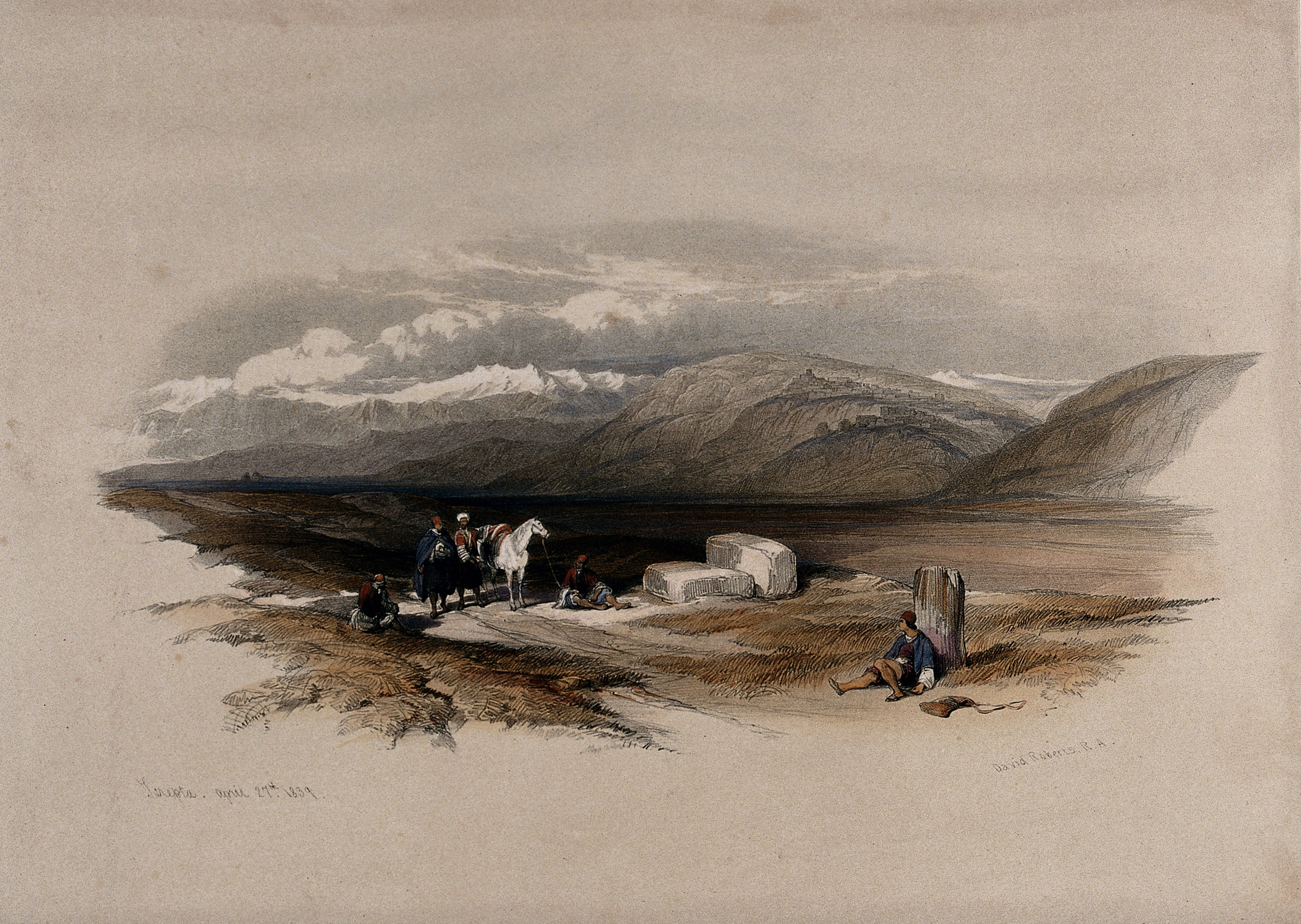 Landscape with site of ancient Sarepta. Coloured lithograph by Louis Haghe after David Roberts, 1843. Iconographic Collections Keywords: David Roberts; Louis Haghe